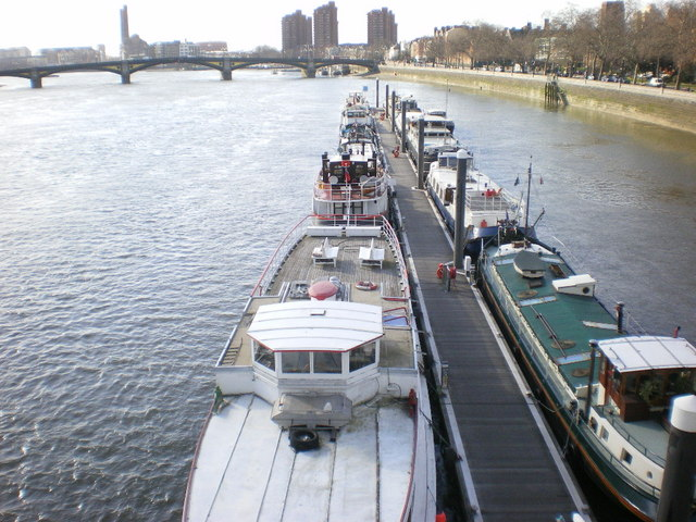 Cadogan Pier (Floating)